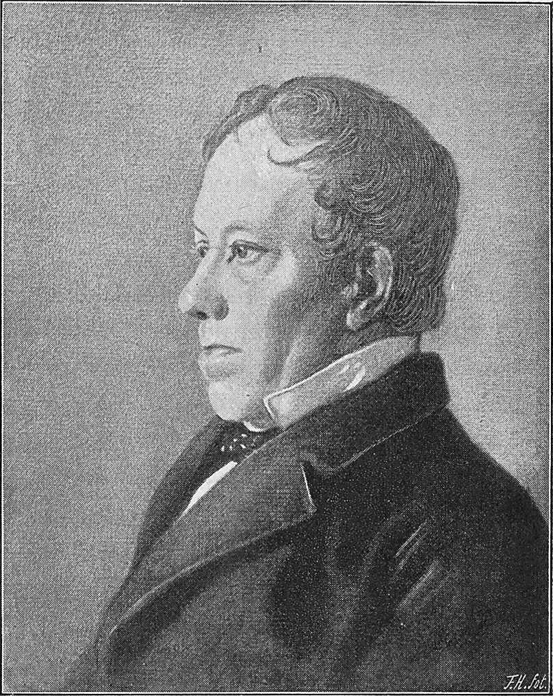 Tage Algreen-Ussing.